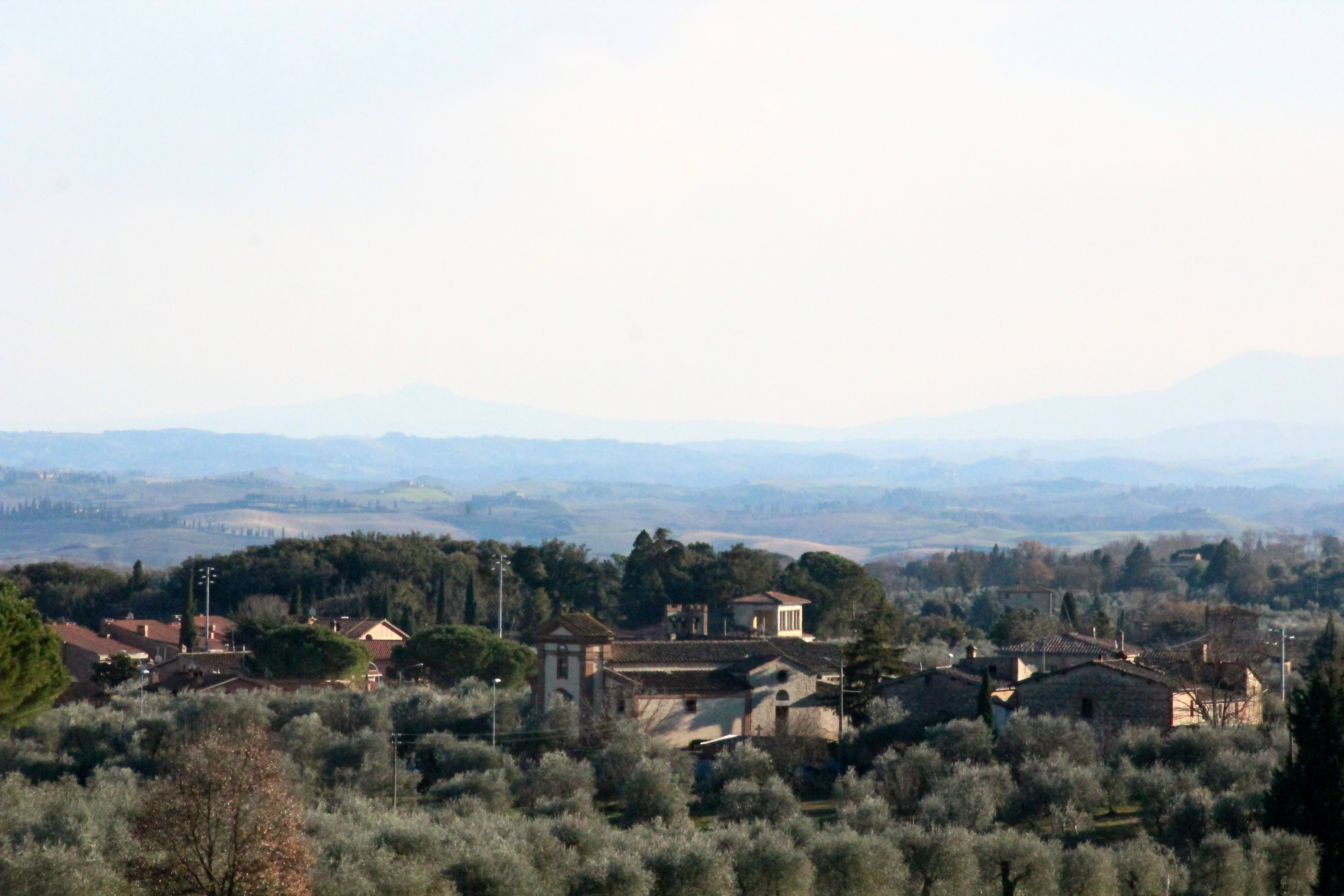 San Giovanni a Cerreto, hamlet of Castelnuovo Berardenga, Province of Siena, Tuscany, Italy